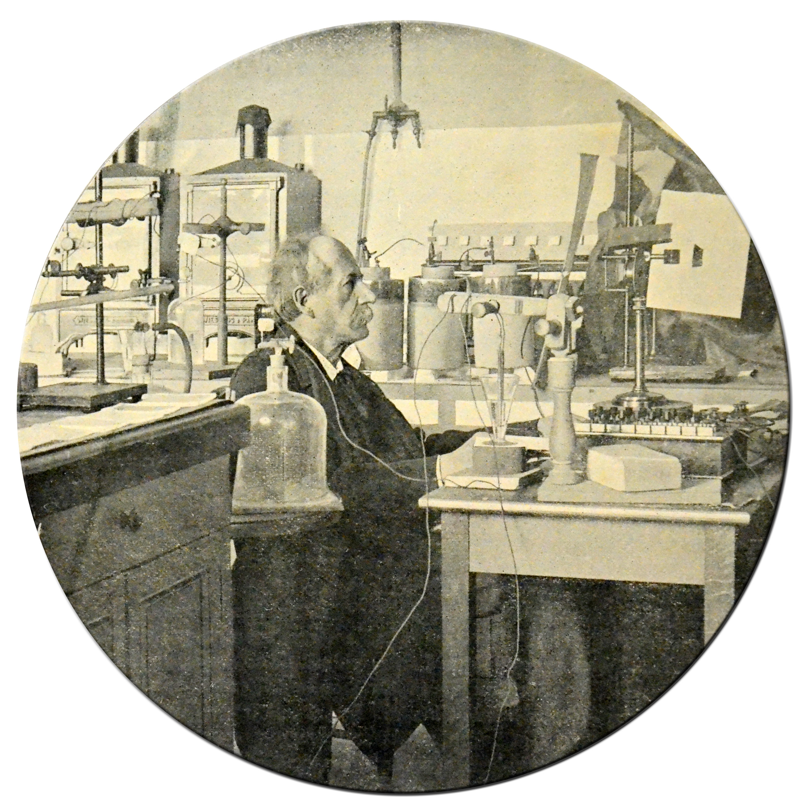 Photo (made by Valerian Gribayédoff) captioned "Mr. Berthelot taking an electrical measurement".